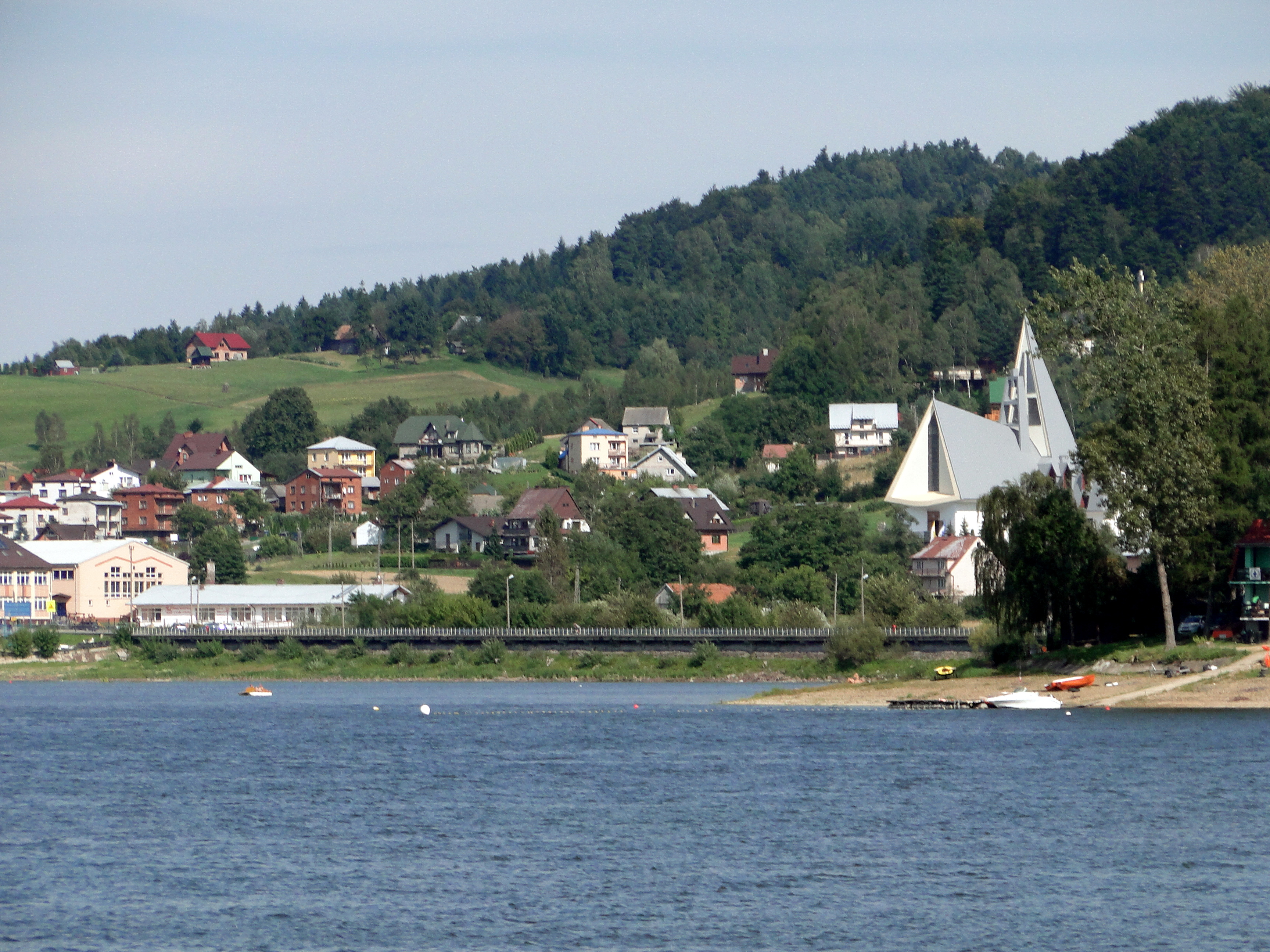 Gródek nad Dunajcem